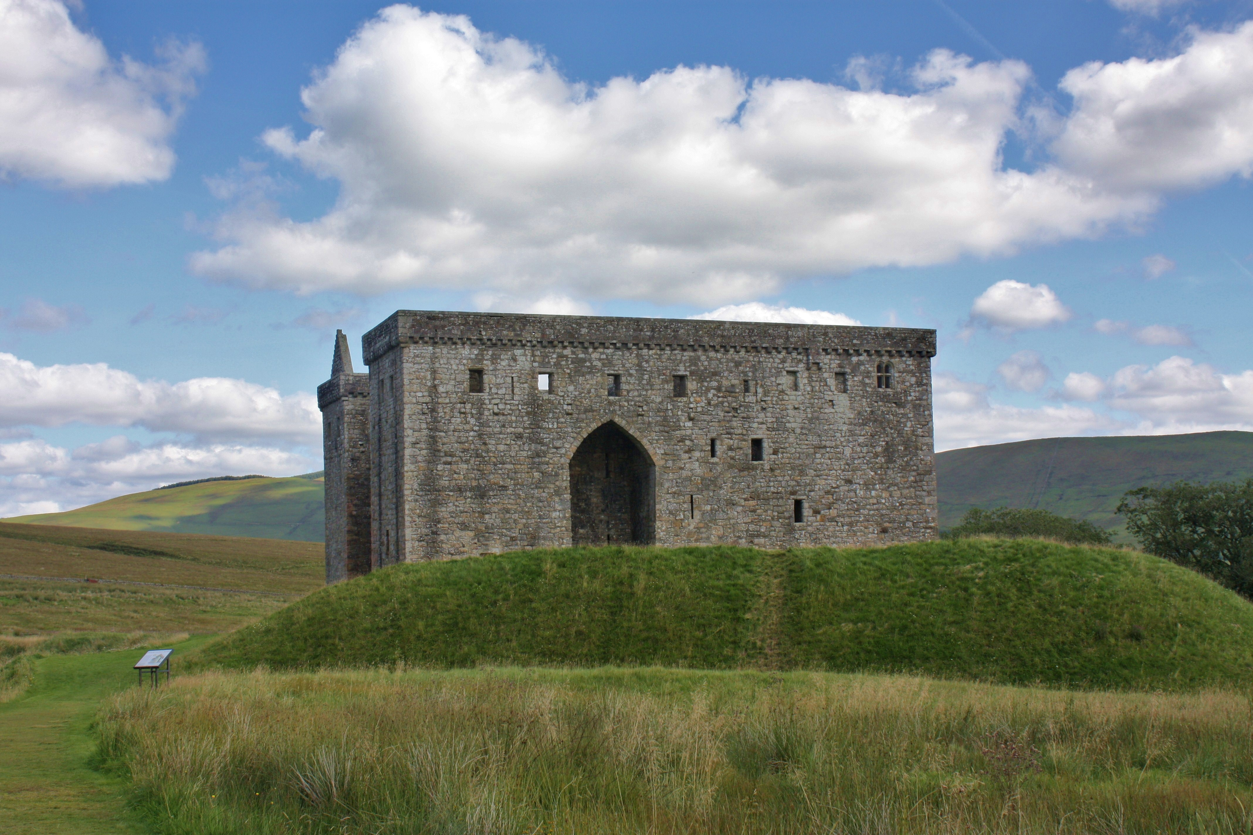 Hermitage Castle, Scottish Borders, Scotland.